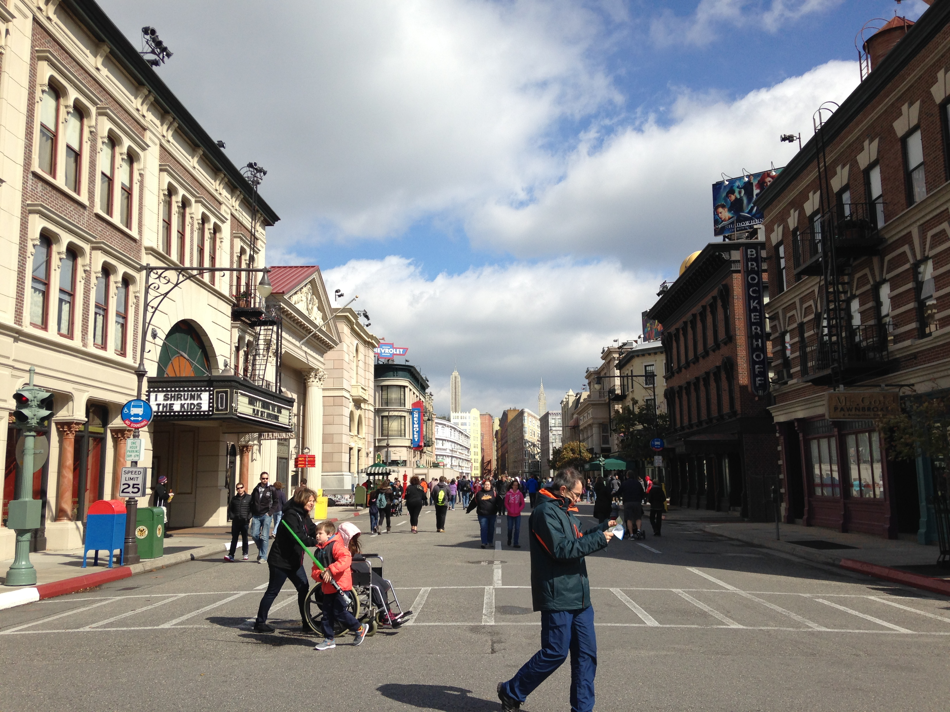 The Streets of America section of Disney's Hollywood Studios.